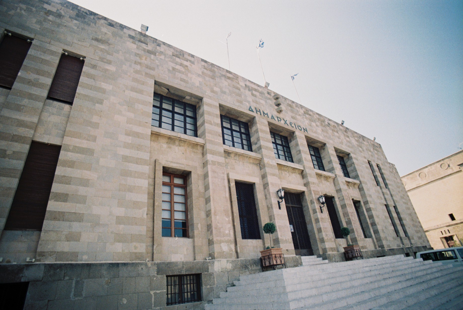 RodiCasadelFascio